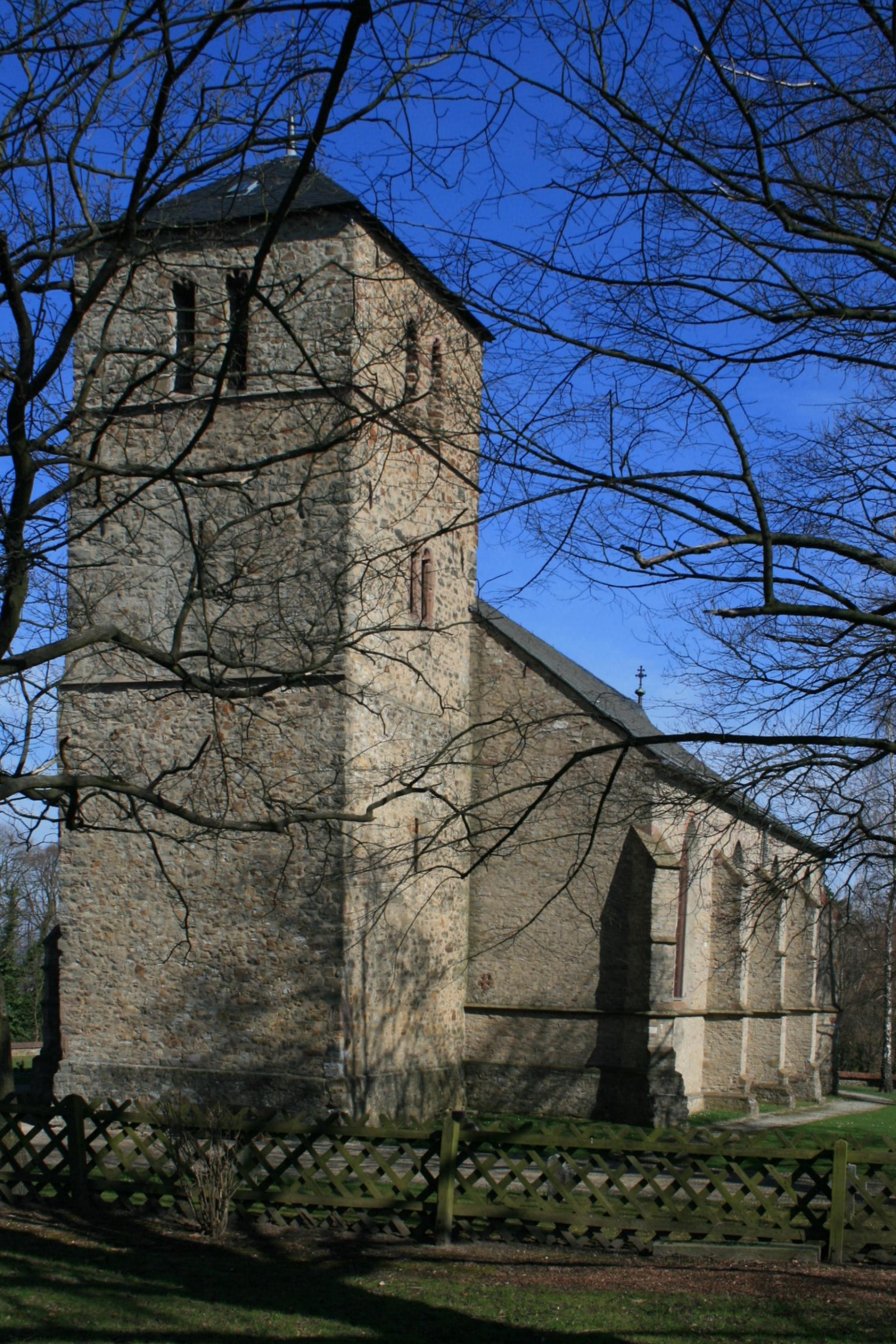 Cultural heritage monument No. 1 in Langerwehe